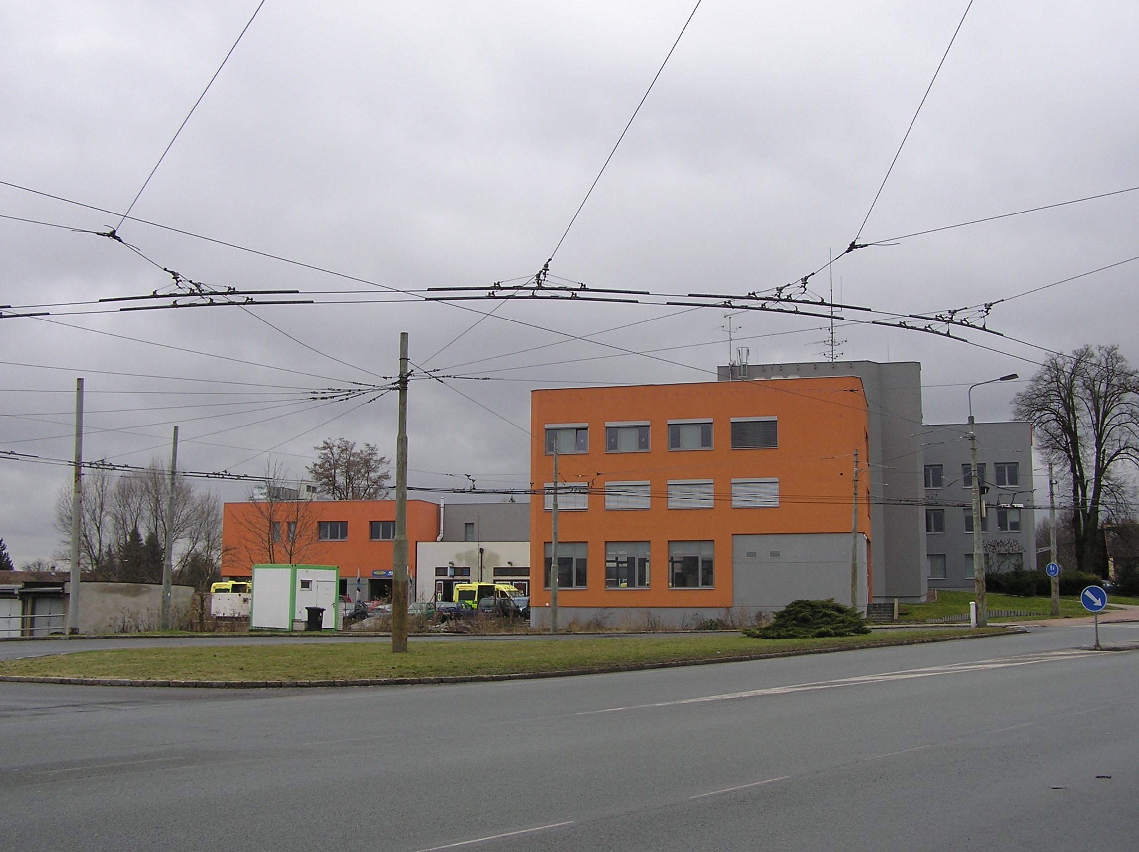 Centre (ambulance station and headquarters) of the Emergency Medical Service of Pardubice Region, Pardubice, Czech Republic